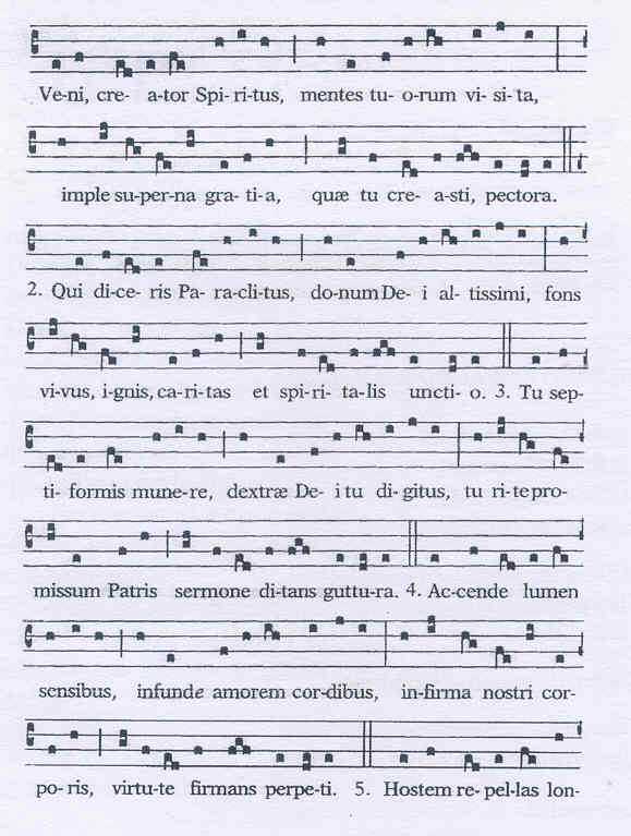 The first page of the 'Veni Creator' Gregorian hymn.